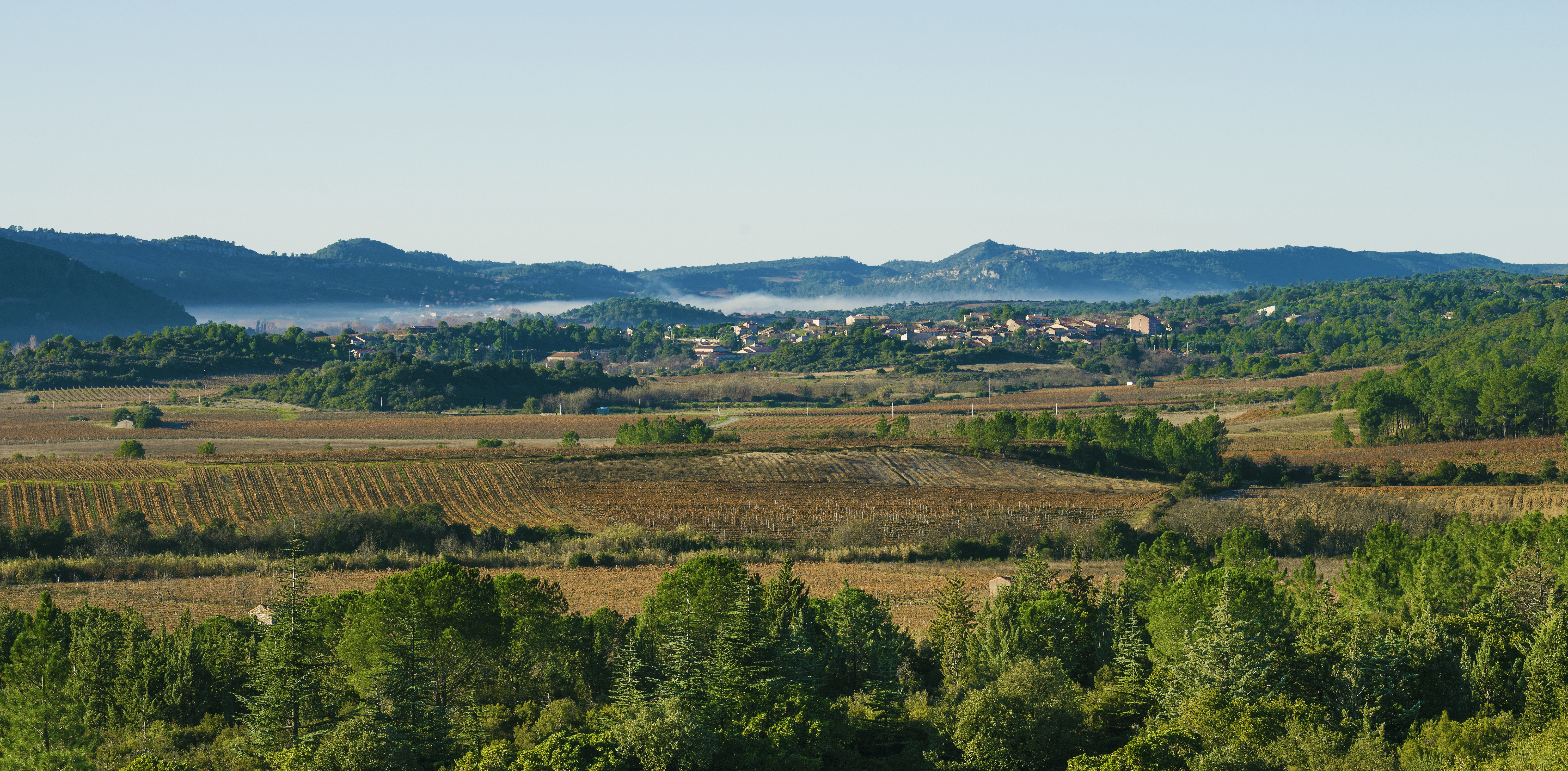 The village and the Southeastern part of the communal area seen from Northeast. Prades-sur-Vernazobre, Hérault, France.These vines are among those which produce the French wine Saint-Chinian.